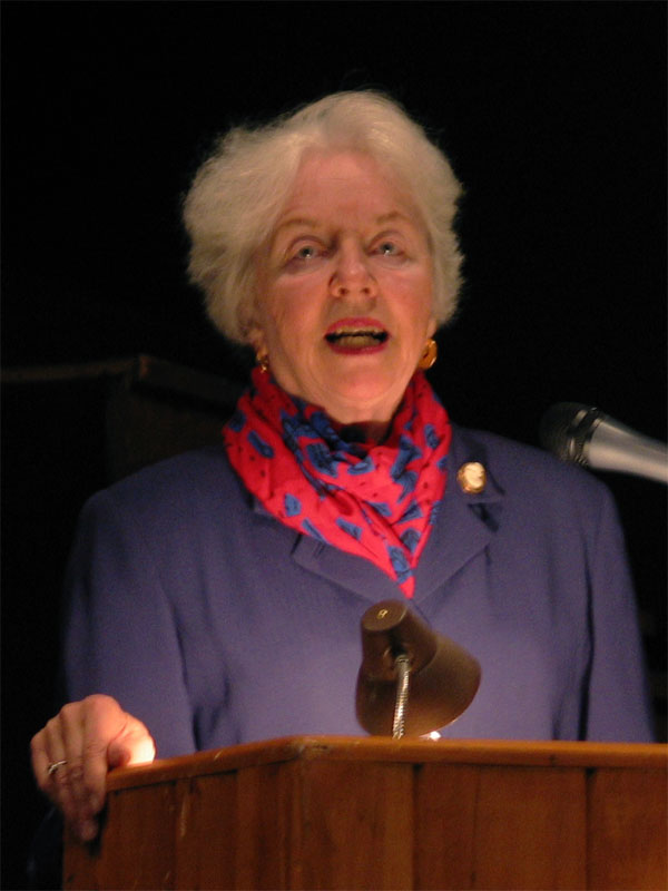 Photograph of Madeleine M. Kunin, taken by Jared C. Benedict on 11 October 2004. Copyright: © Jared C. Benedict.